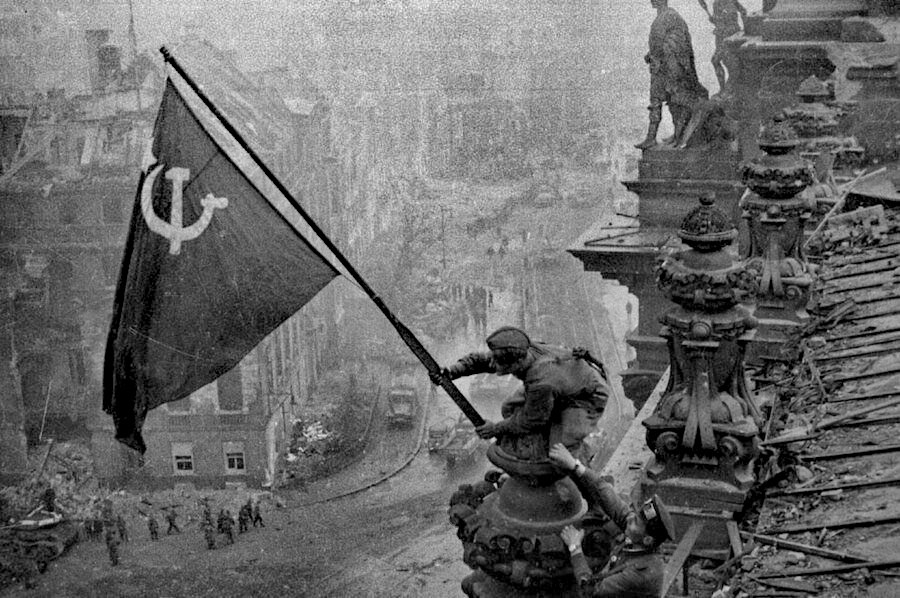 The iconic "Raising a flag over the Reichstag" photo by Yevgeny Khaldei